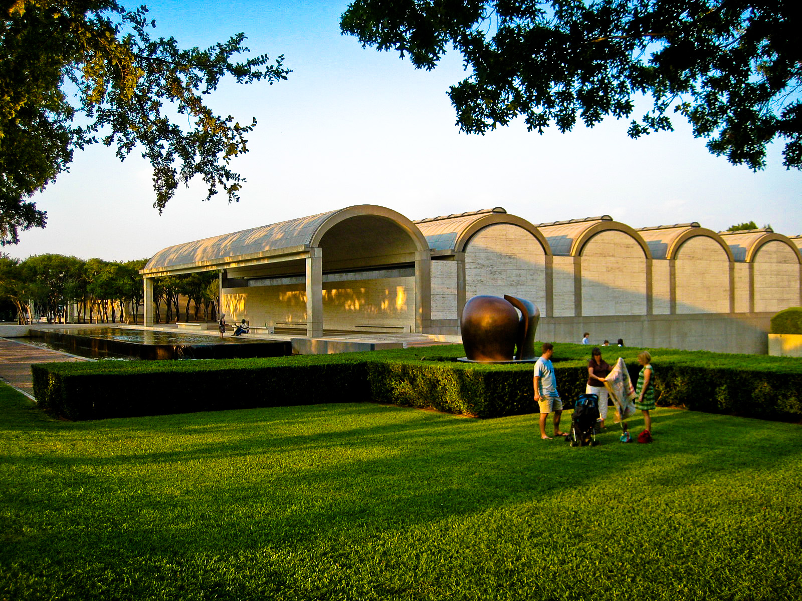 Kimbell Art Museum exterior with Figure in a Shelter by Henry Moore